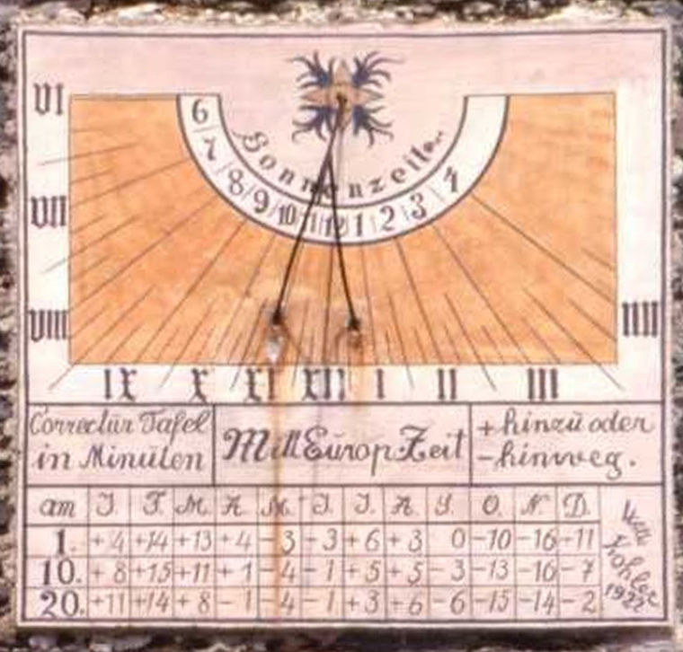 vertical sundial with correction-list of Equation of time, Tirol/Austria